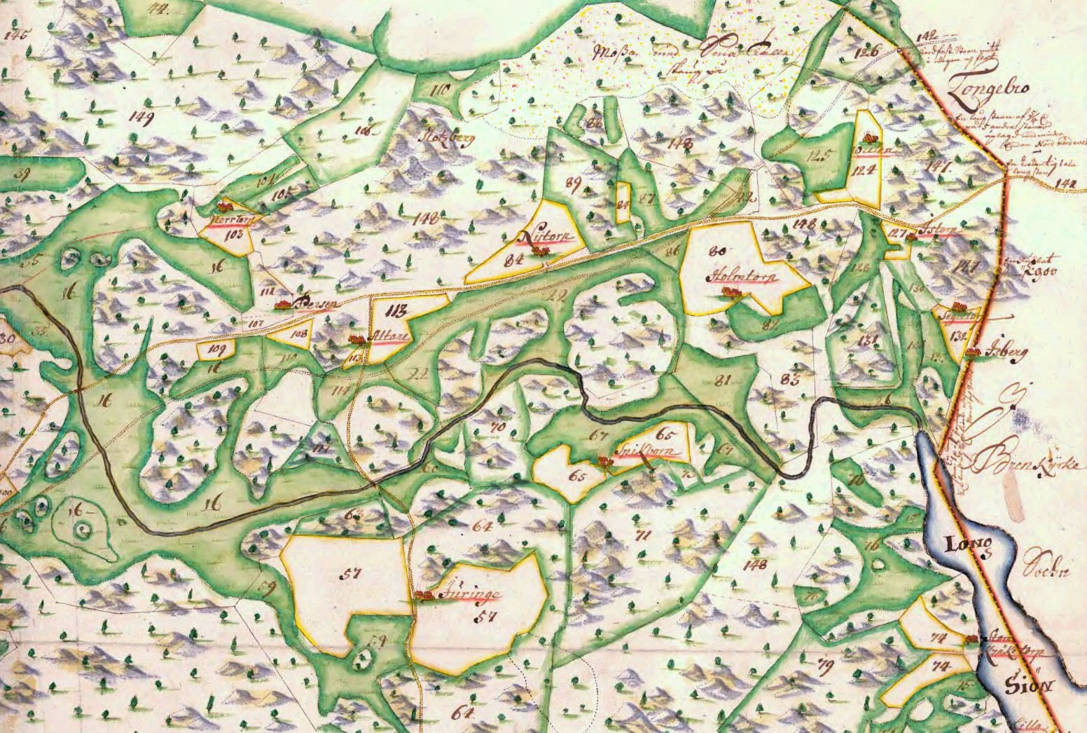 General Carta öfwer Vårby säteri 1703